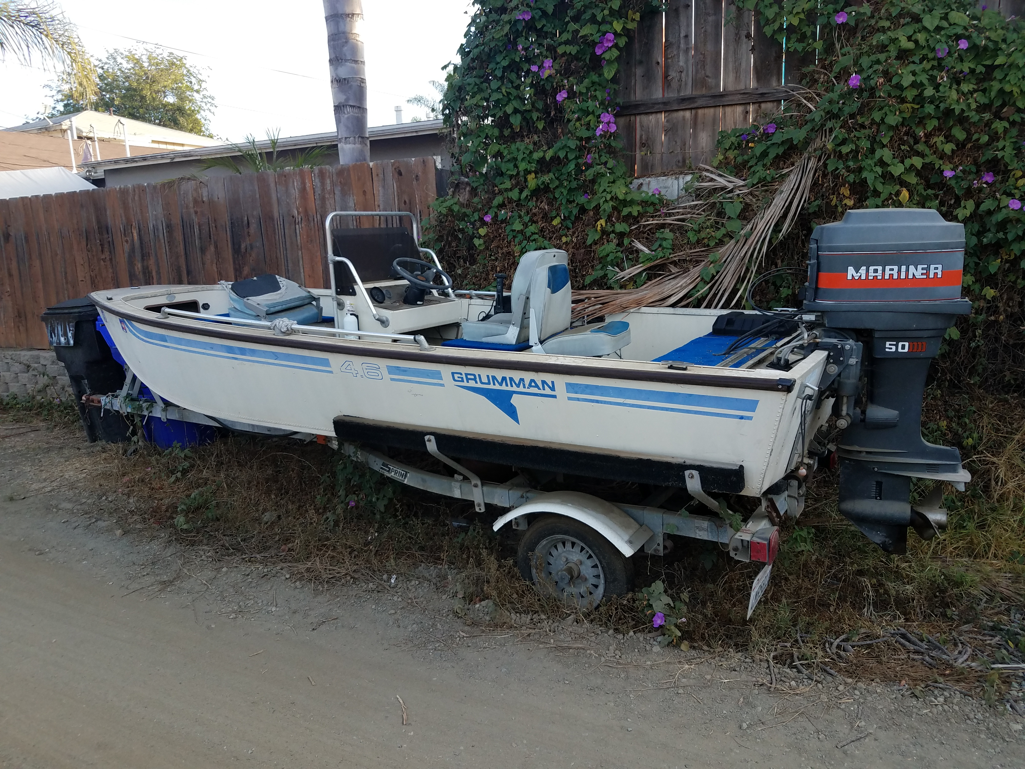 A boat, made by Grumman, observed on a trailer in the alley between Boundary and Nile in the Monclair neighborhood, part of North Park, of San Diego